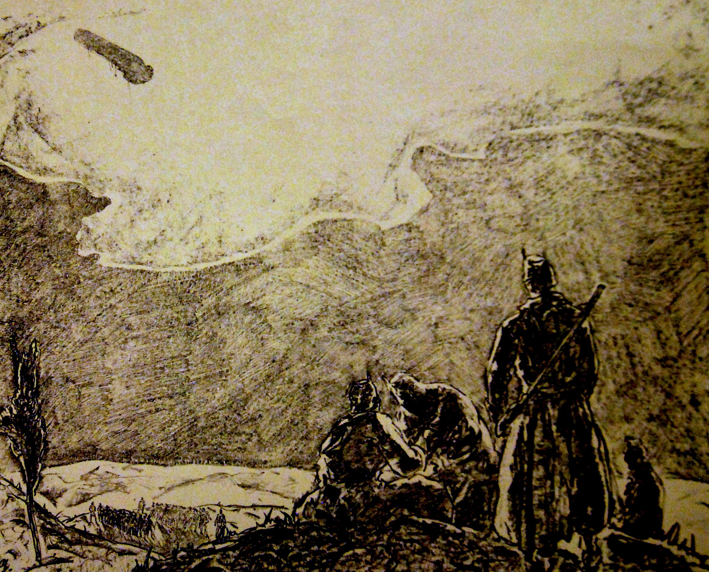 Lot-9862-4: German airship. Artwork of a German soldiers underneath an airship by Will Geiger. Courtesy in the Library of Congress. (2017/01/06).